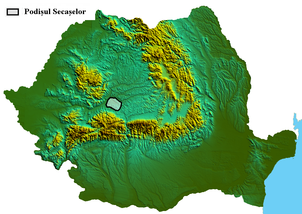 Podisul Secaselor in Romania